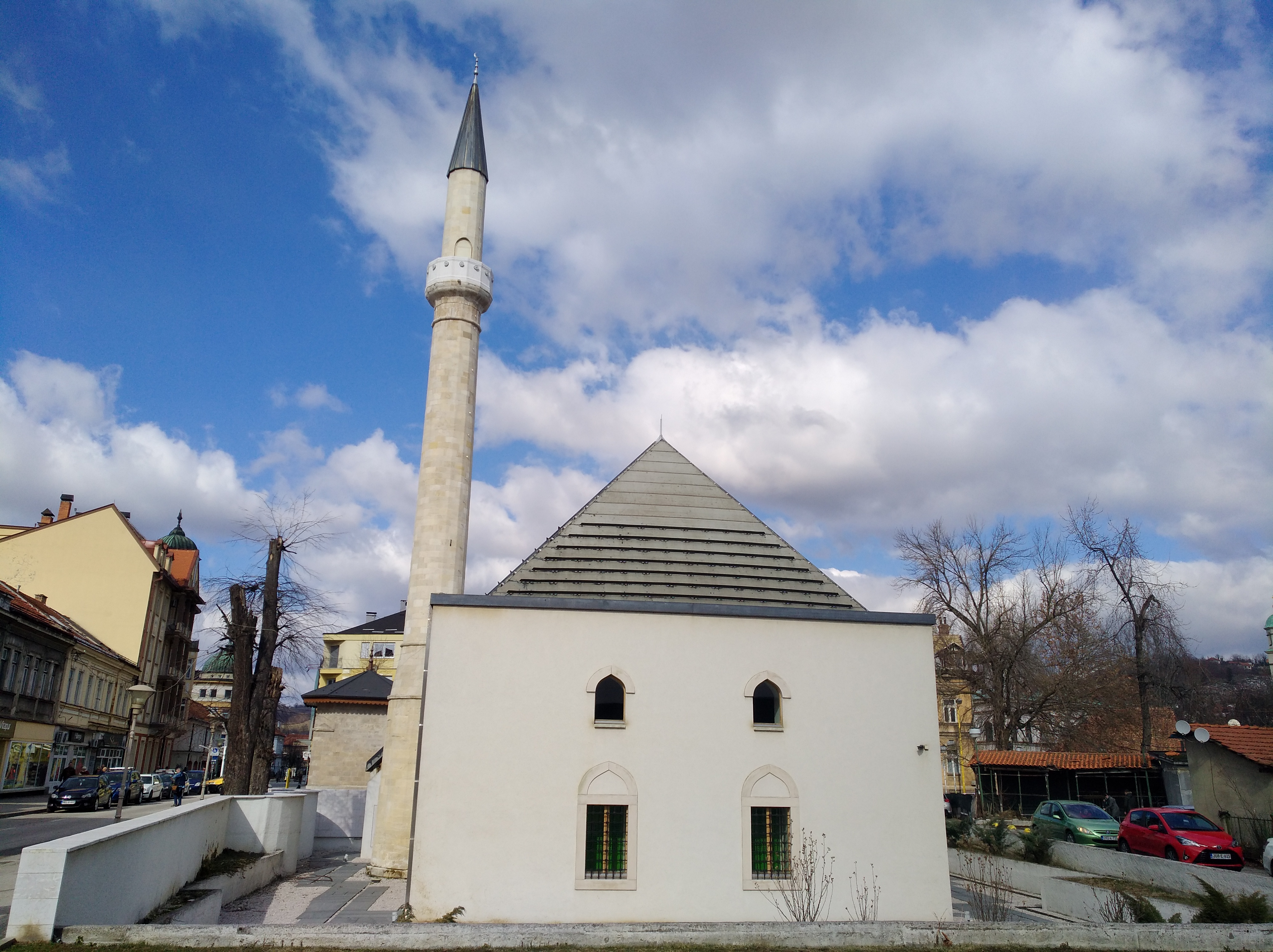 Poljska (Turali-begova) Mosque, in Tuzla, Bosnia and Herzegovina.